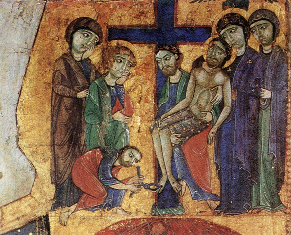 UNKNOWN MASTER, Italian Crucifix with the Stories of the Passion (n. 432) Tempera on wood, 277 x 231 Galleria degli Uffizi, Florence